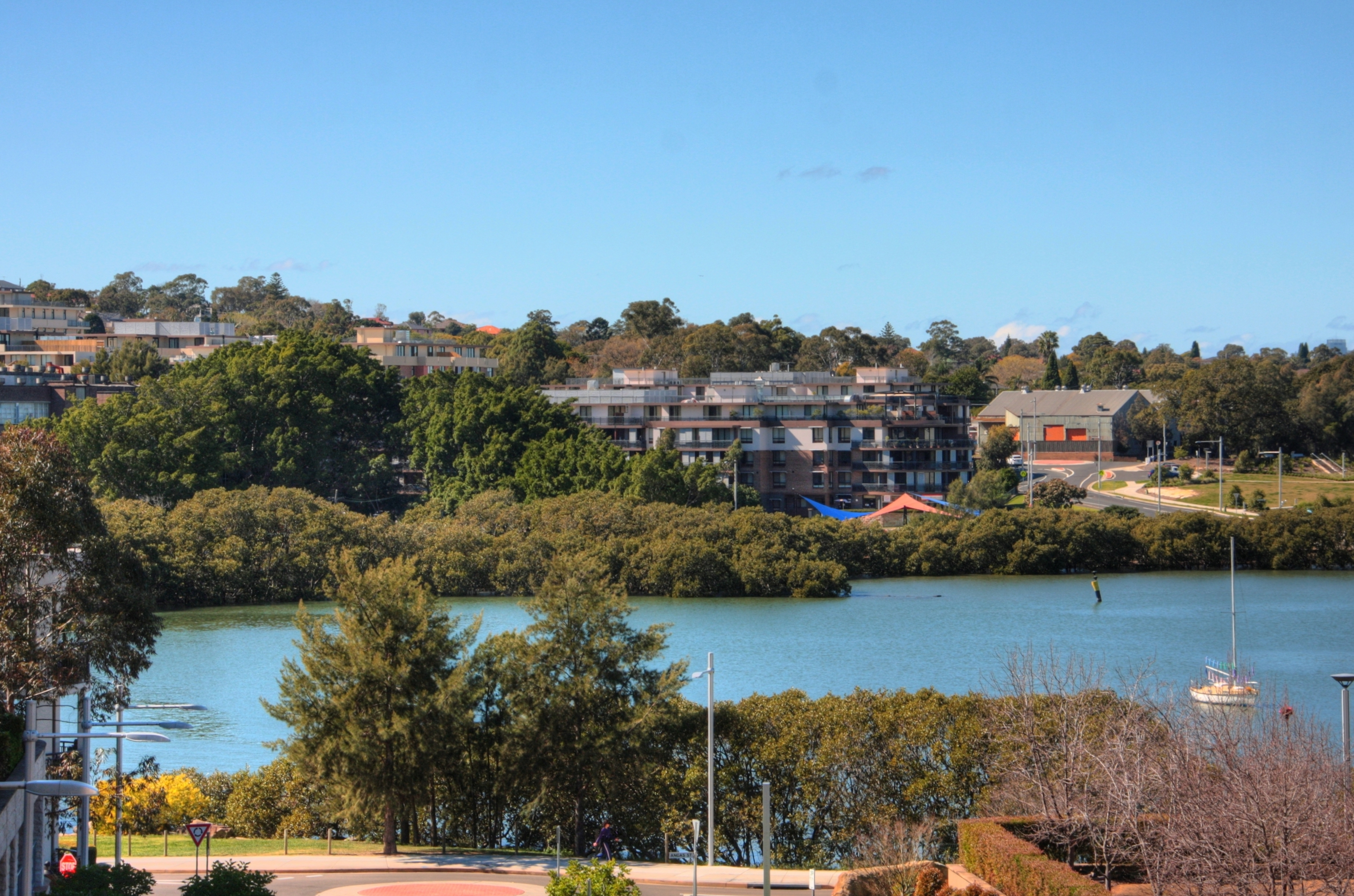 Meadowbank, New South Wales